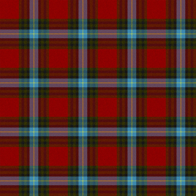 A digital representation of the Livingstone / MacLay tartan. The tartan is very similar to the MacLaine of Lochbuie tartan. Thread count used for image: Red56 Green8 Black8 Green8 Black8 Azure12 Yellow2. [1]